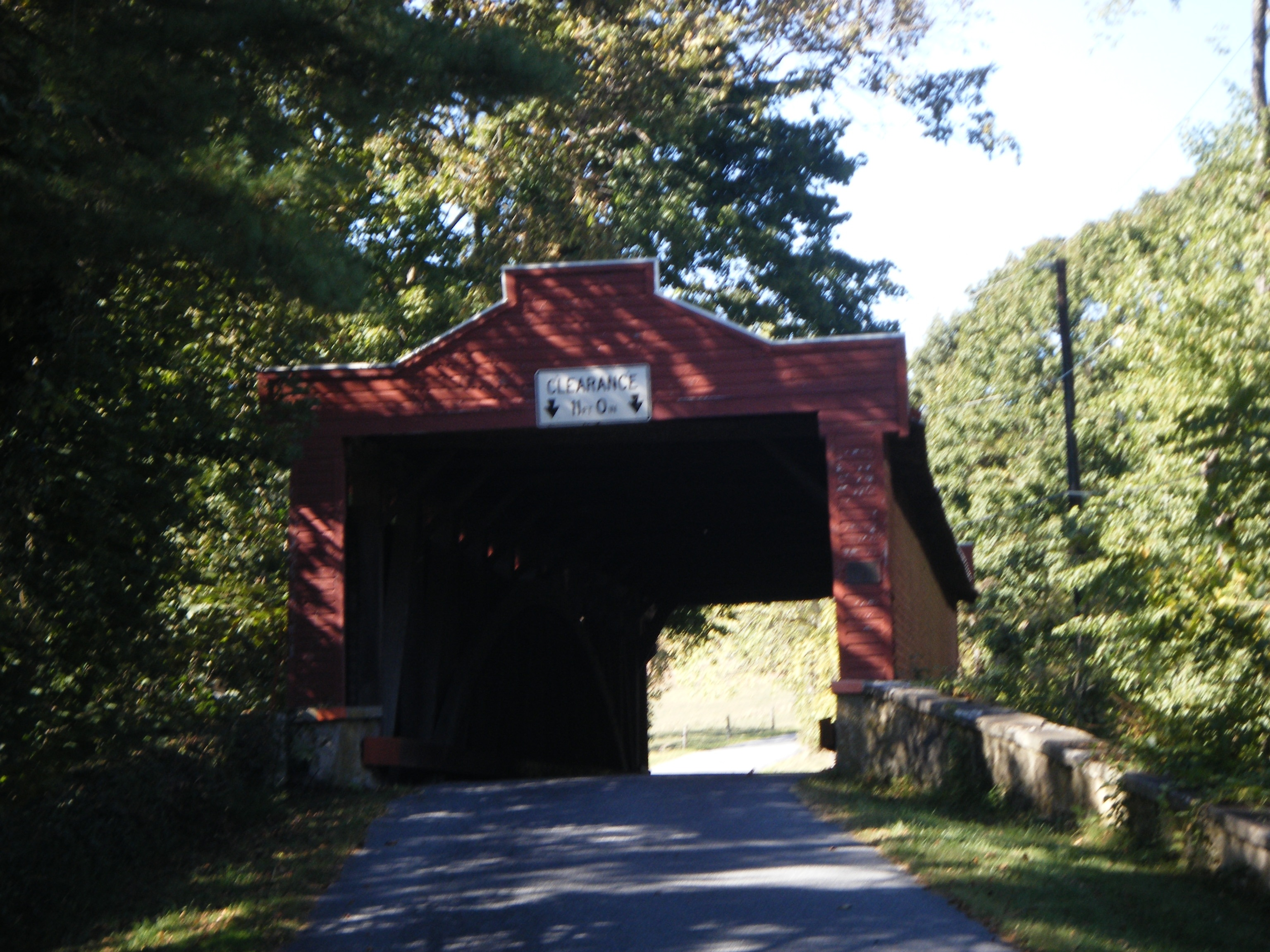 The Kutz's Mill Covered Bridge looking northbound in Greenwich Township, Pennsylvania.